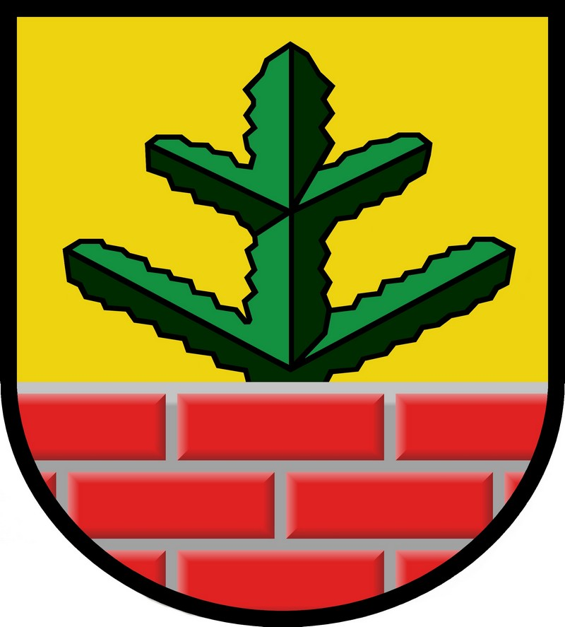 Symbol of village Chvojenec